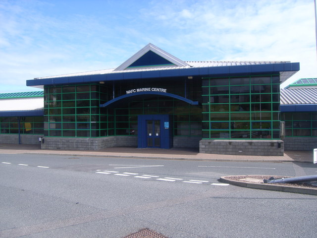 NAFC Marine Centre, Port Arthur - Scalloway